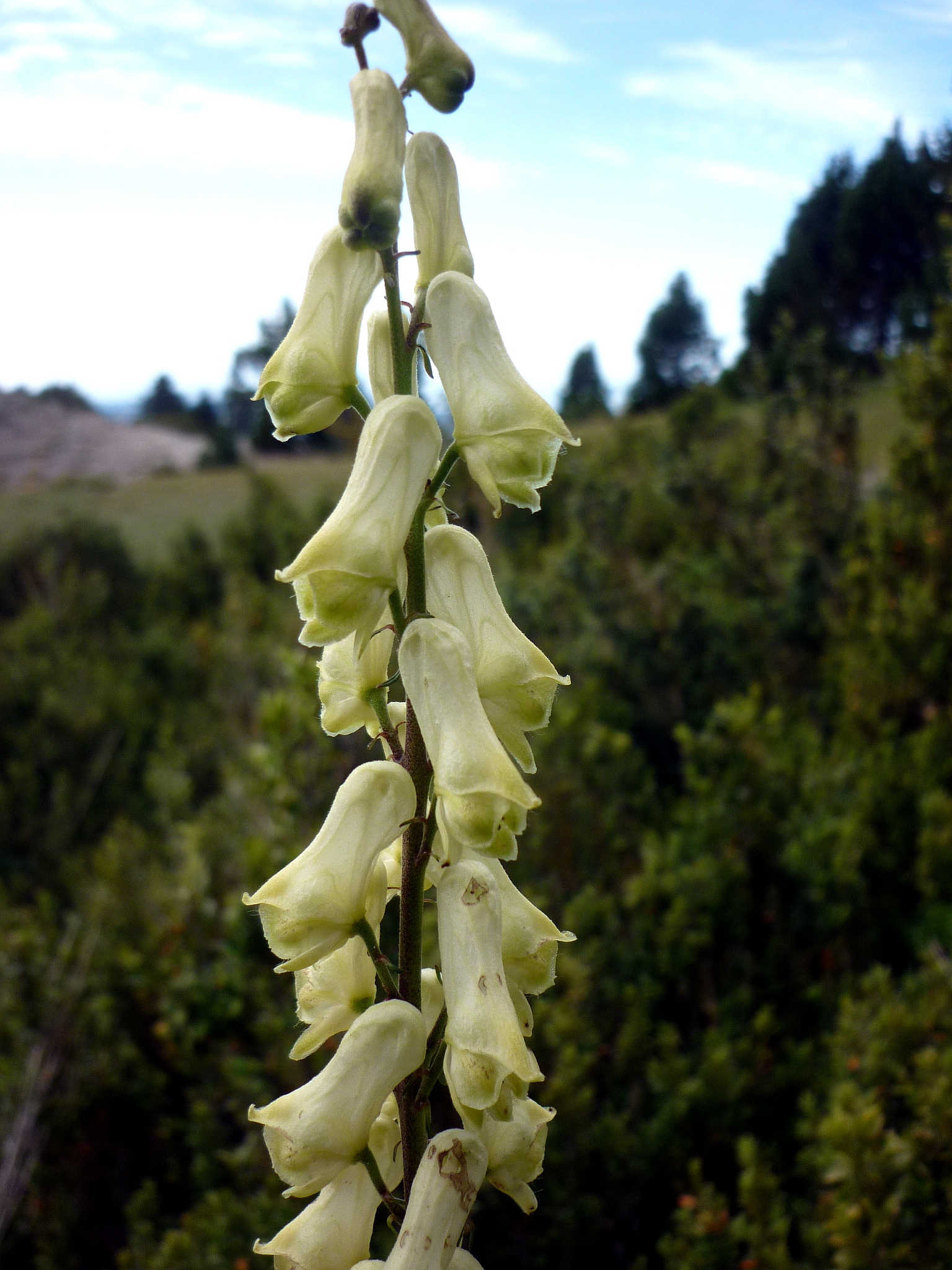 Aconitum vulparia. In la Bòfia, la Coma i la Pedra (Solsonès - Catalunya), at 1,840 m. altitude